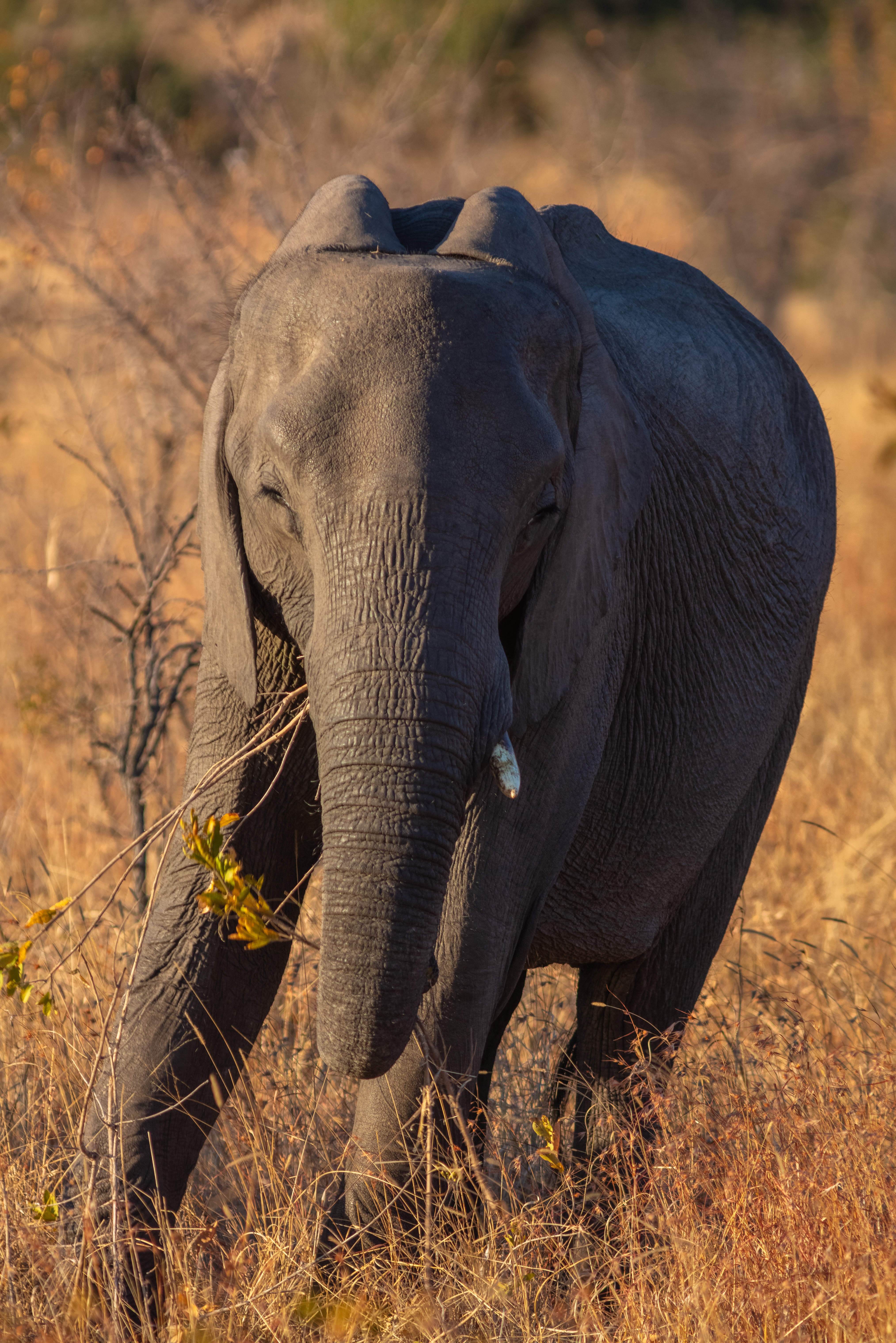 African bush elephant (Loxodonta africana), Kruger National Park, South Africa